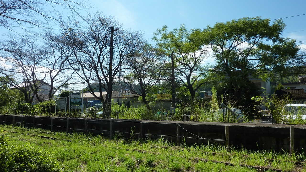 Former Takachiho Railway - Mukabaki Station (Nobeoka City, Miyazaki, Japan)